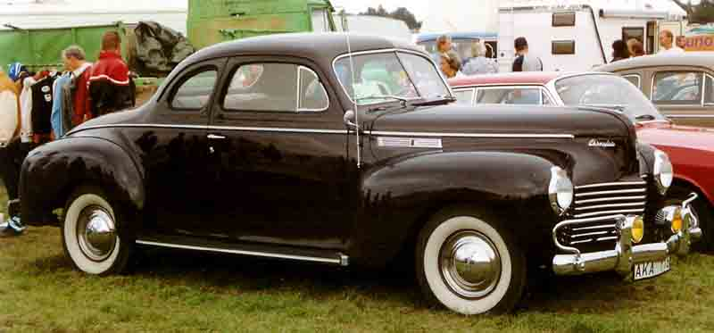 1940 Chrysler Windsor Series C-25 Coupé